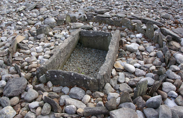 Temple Wood Stone Circles - inner circle of the southern circle